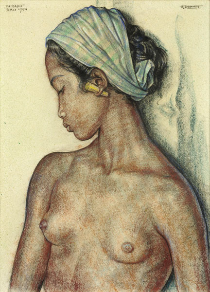 Rudolf Bonnet's master work "Ni Radji" Bali 1954